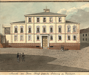 Heilbronn Villa Goppelt um 1836.jpg